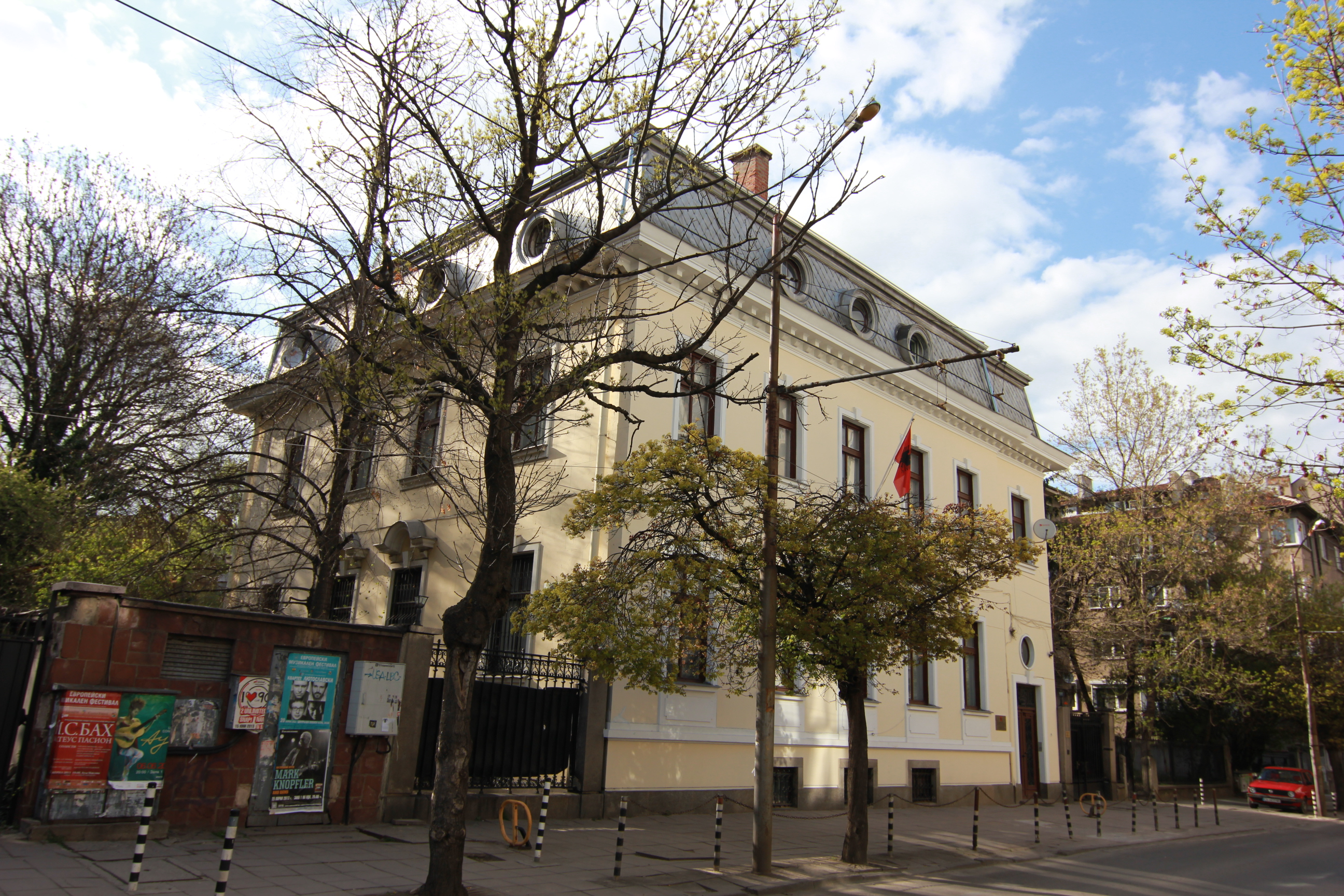 Albanian Embassy in Sofia, Krakra street